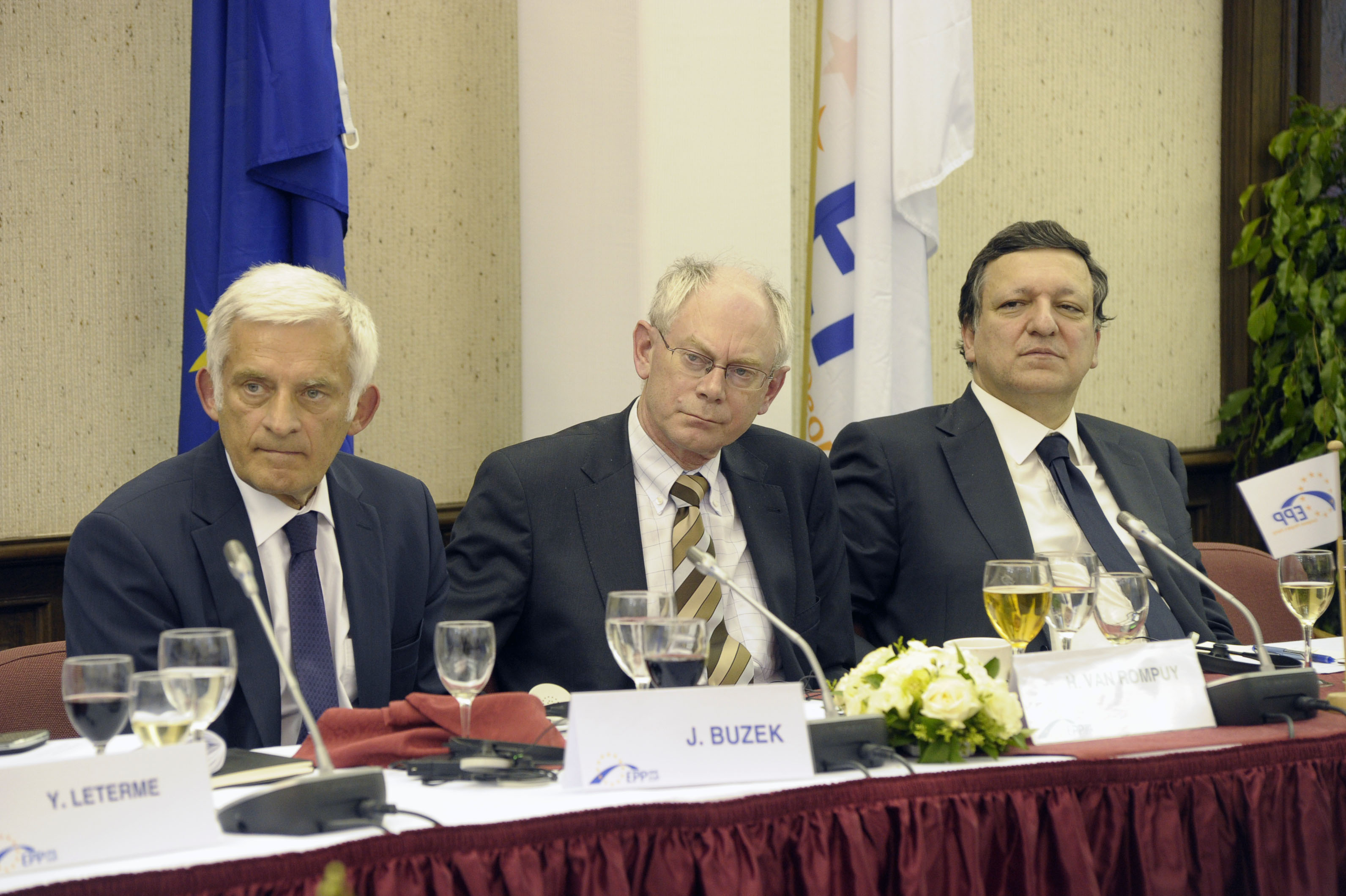 Jerzy Buzek, Herman Van Rompuy and José Manuel Barroso during EPP Summit, 2010